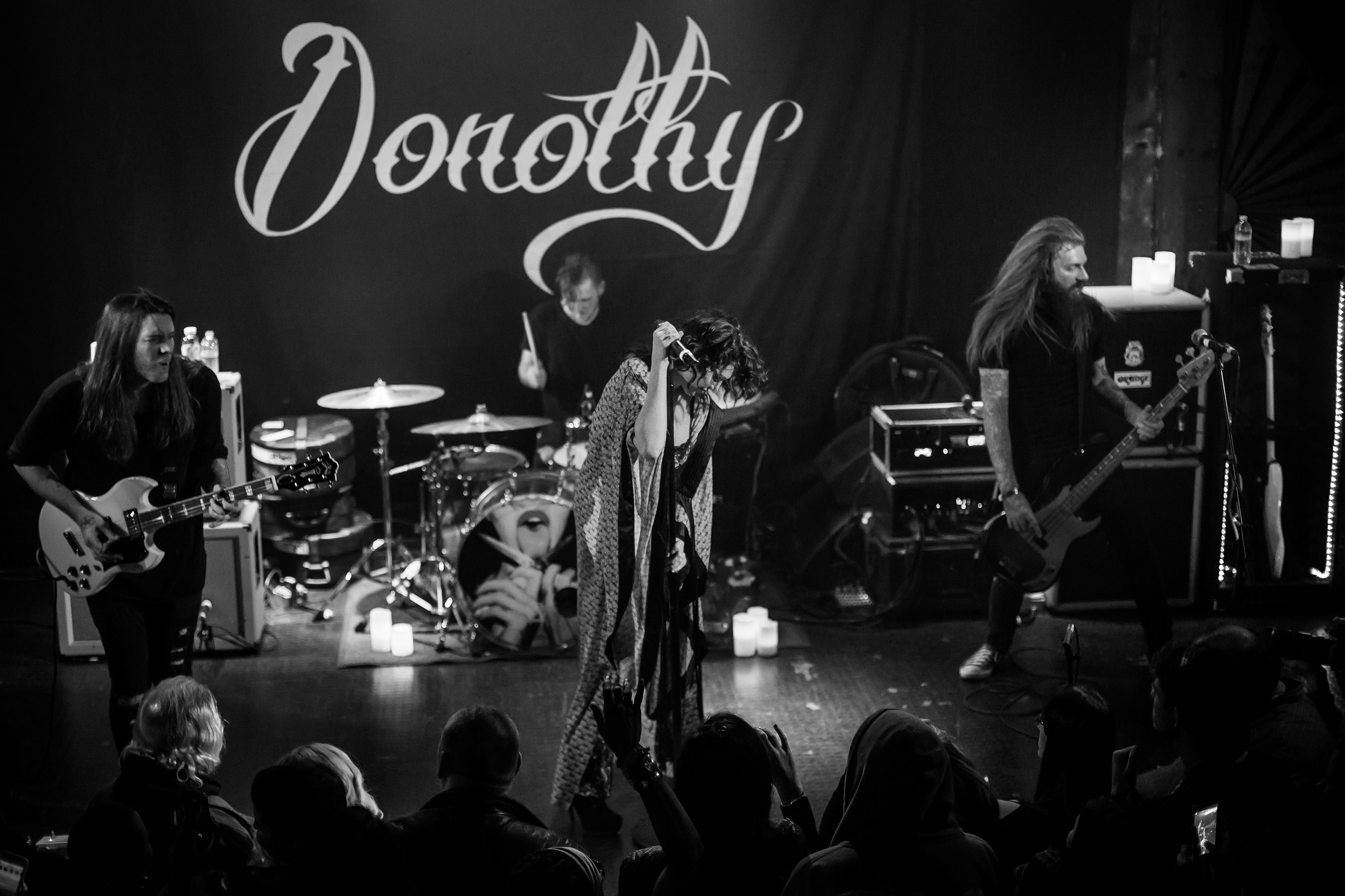 The four piece rock band Dorothy performing in LA.